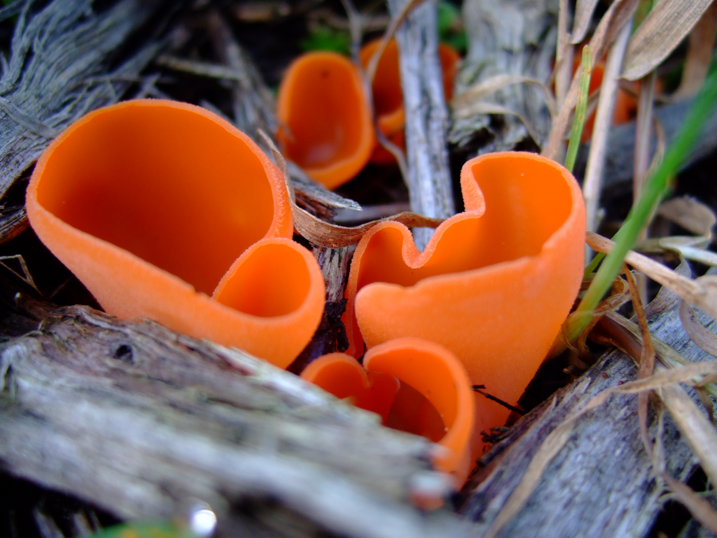 Orange Peel Fungus in Kirchwerder, Hamburg.